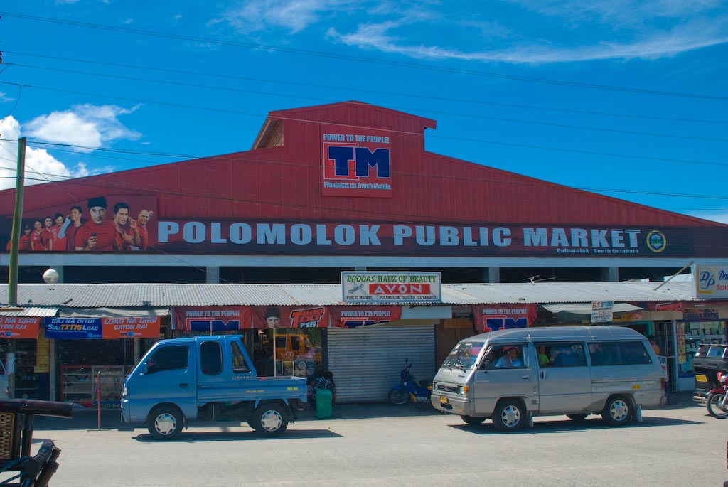 Polomolok Public Market, Taken 14 May 2009